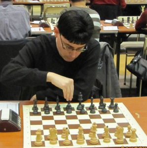 This is a photo made during Plovdiv Chess Open 2011 and Atanas Kolev had given his permission to be published.